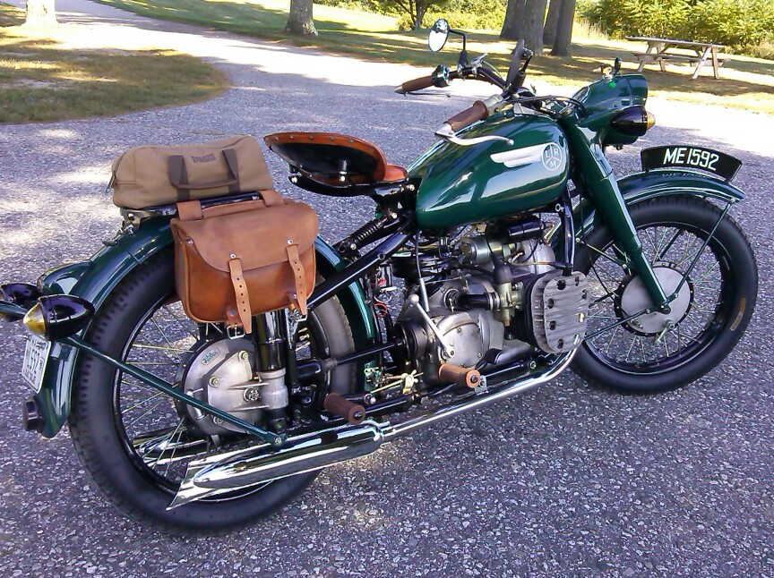 CJ750M1. Sidevalve engine, 6 volt electrical system.